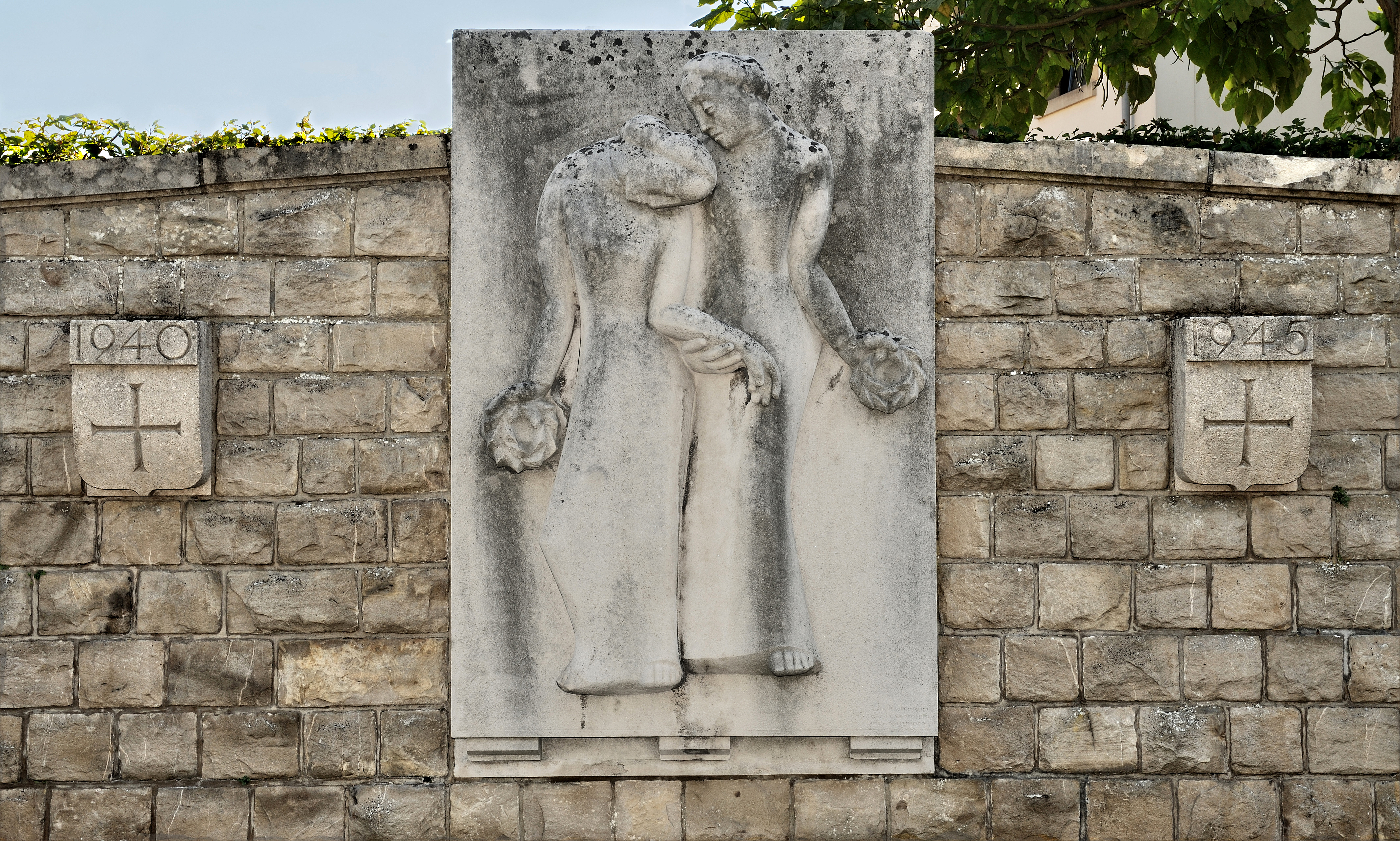 Relief on World War II Memorial at Capellen, Luxembourg. The relief is by Lucien Wercollier (1908-2002). Uploaded with the expressive permission of the family members of the artist.